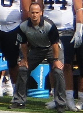 BYU linebackers coach Kelly Poppinga on the sidelines at Michigan Stadium during BYU's game at Michigan on Sept. 26, 2015.